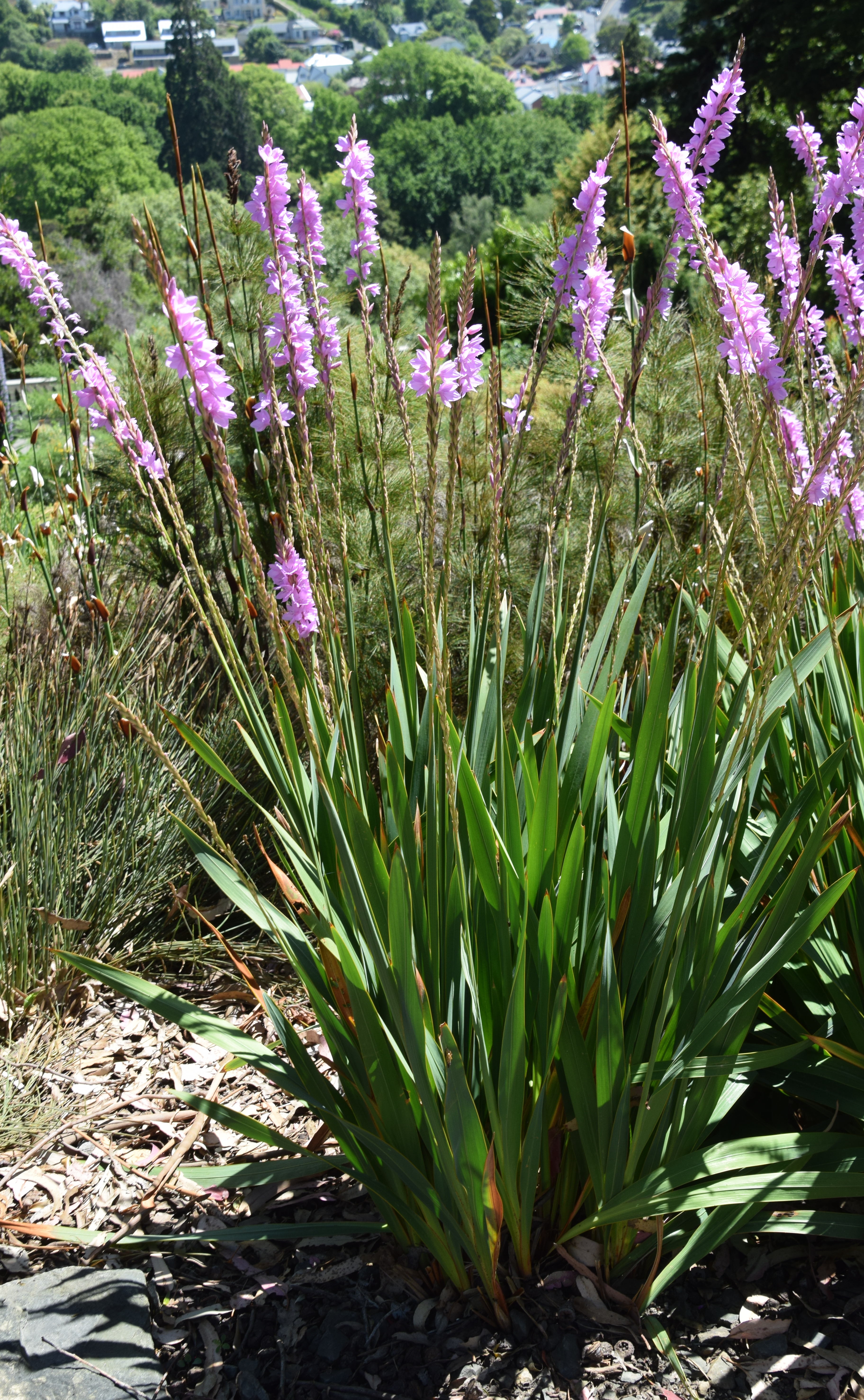 Watsonia marginata in Dunedin Botanic Garden, Dunedin, New Zealand